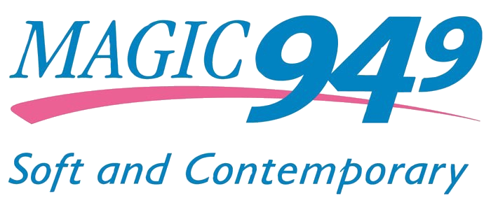 Former logo of the radio station WWRM used between 2010 and 2012.